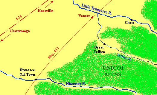 Map of Monroe County and northern Polk County, Tennessee, showing the locations of the three major Overhill Cherokee towns in the 18th century. Red lines and letters indicate modern roads and structures. Map NOT drawn to scale.